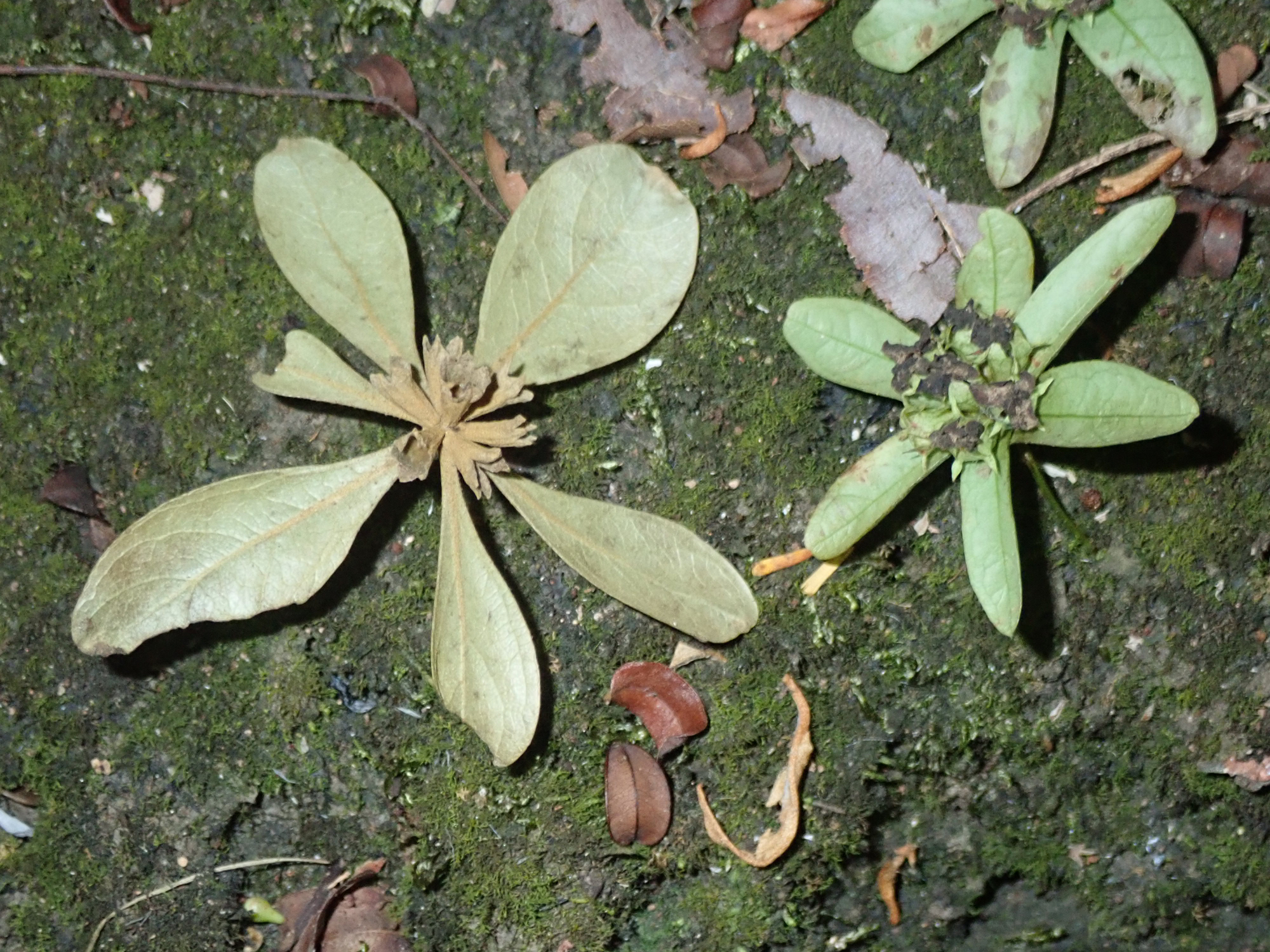 Fallen Sphenodesme flowers in Cat Tien National Park